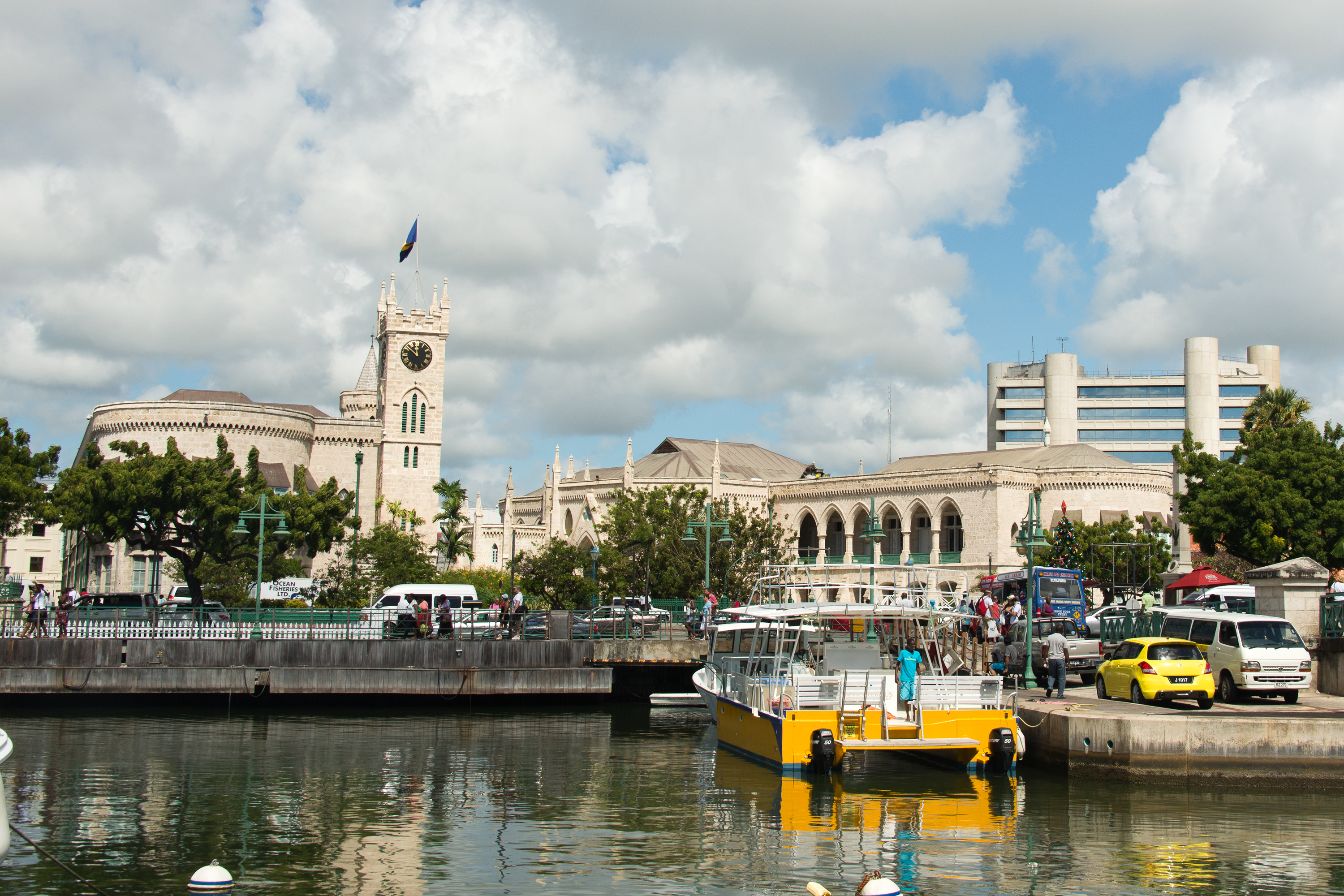 View from across the Wharf, in Bridgetown, Barbados in St. Michael of the Barbados Parliment buildings and the Central Bank building on a sunny tropical day in December in the early morning filled with pedestrian and motor traffic.